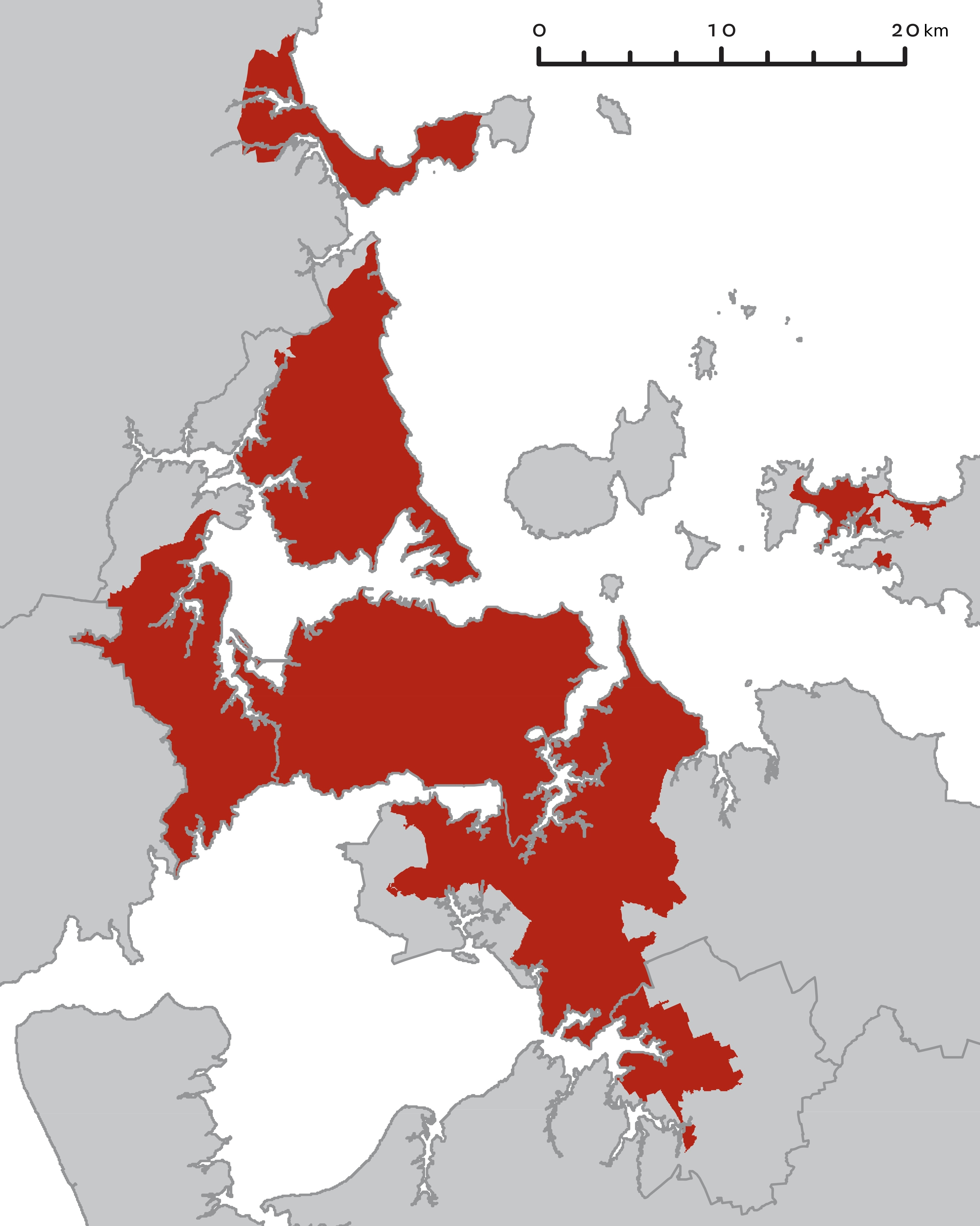 A map of the Auckland region with the Auckland urban area highlighted in red. The existing region and district boundaries are shown with grey lines; these are no longer current. North is at the top. The coastline shown around Puketutu Island, east of Mangere, is inaccurate. It shows all the area between the island and the mainland (formerly occupied by sewage treatment ponds) as land.